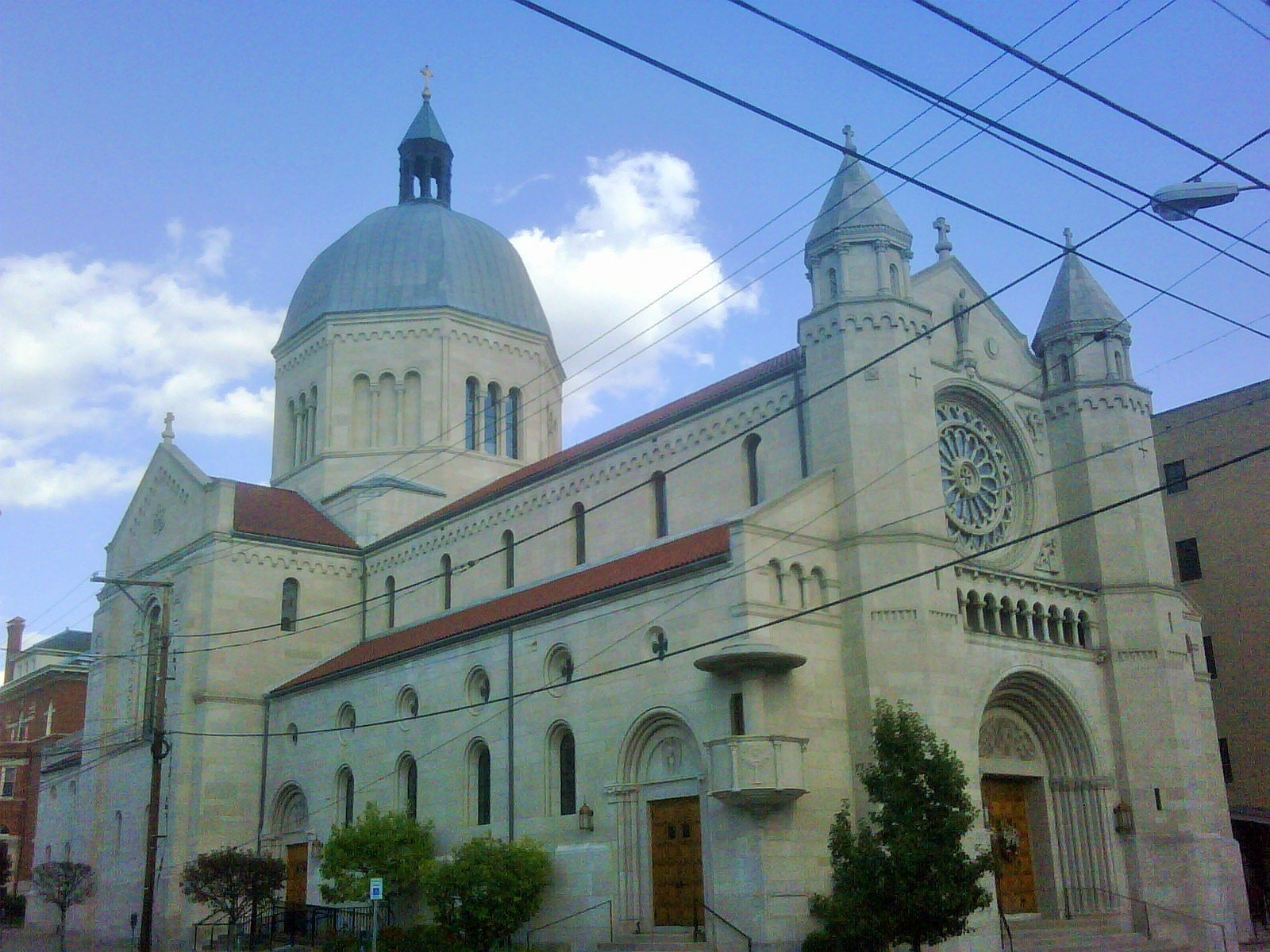 St. Joseph Cathedral in Wheeling, West Virginia taken from the Northwest